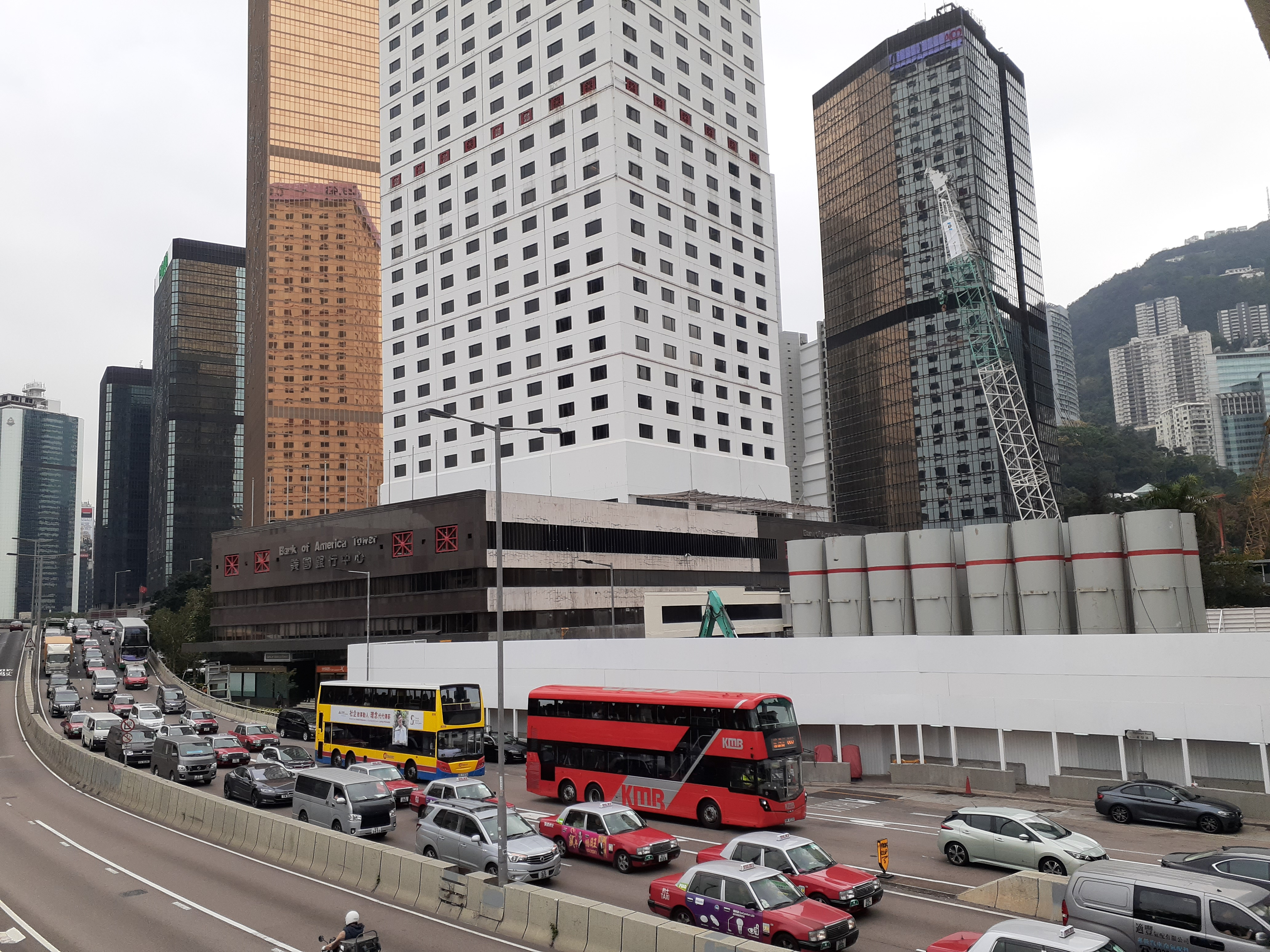 HK 金鐘 Admiralty Harcourt Road footbridge view in January 2020